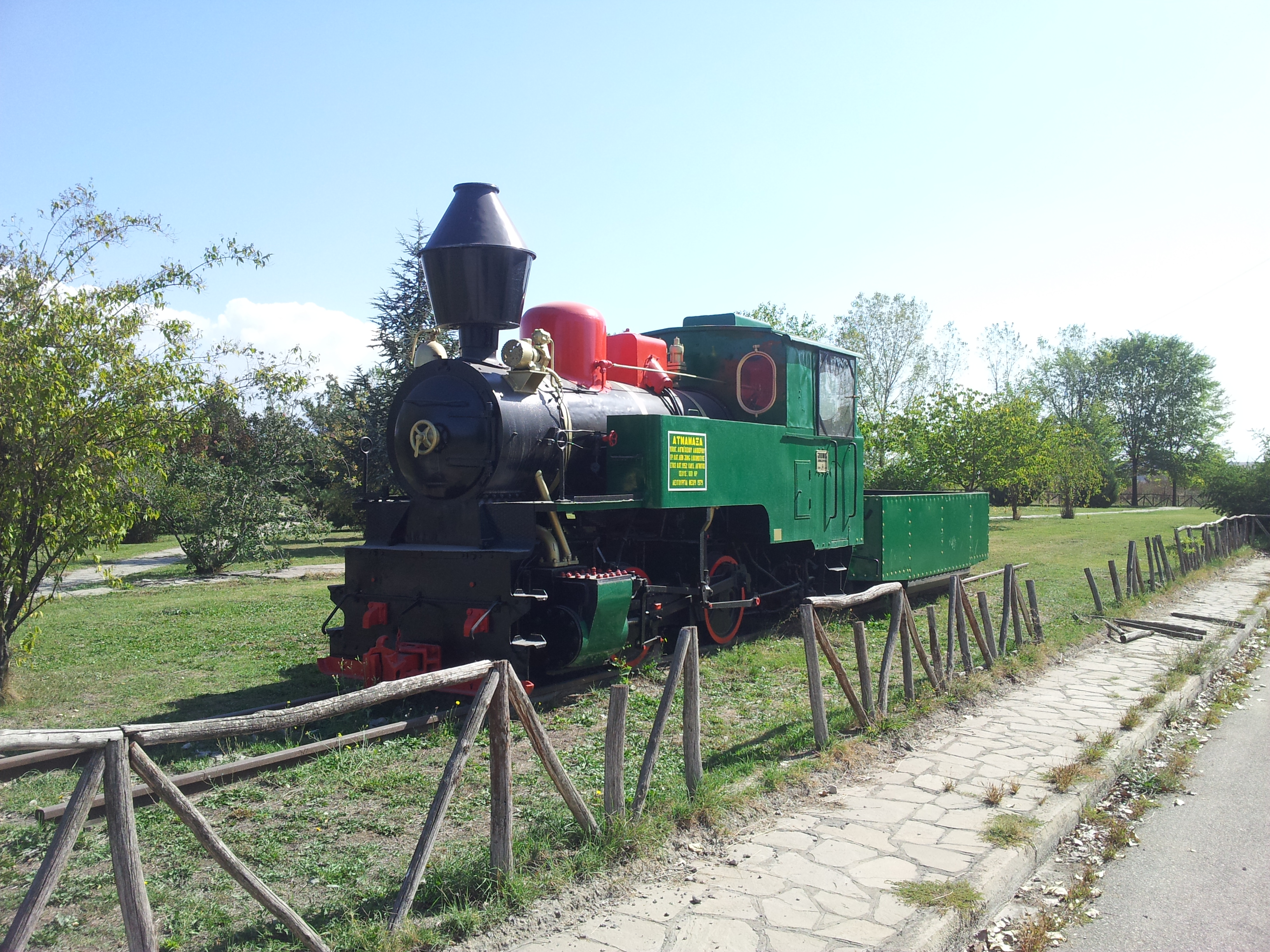 One of the Jung steam locomotives used in the metre gauge mining railway at Aliveri, preserved at Ptolemais.